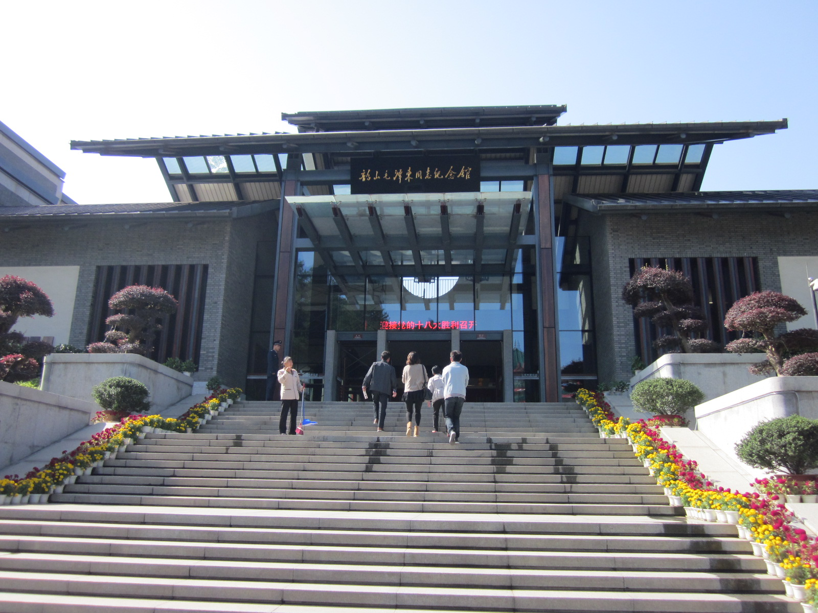 ShaoShan Mao Zedong Memorial Museum